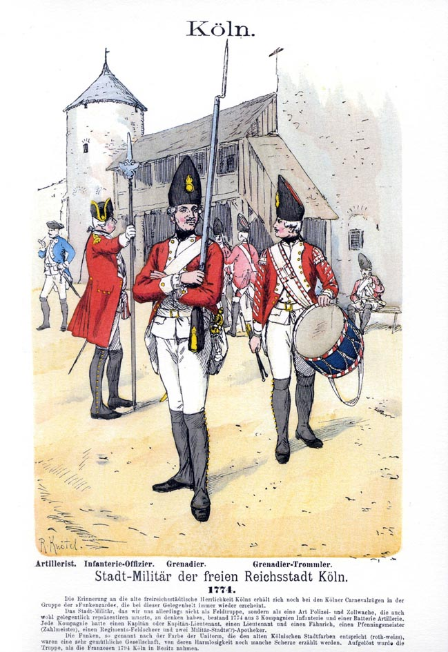 Köln. Stadtmilitär der freien Reichsstadt. 1774